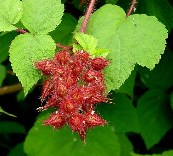 Wineberry